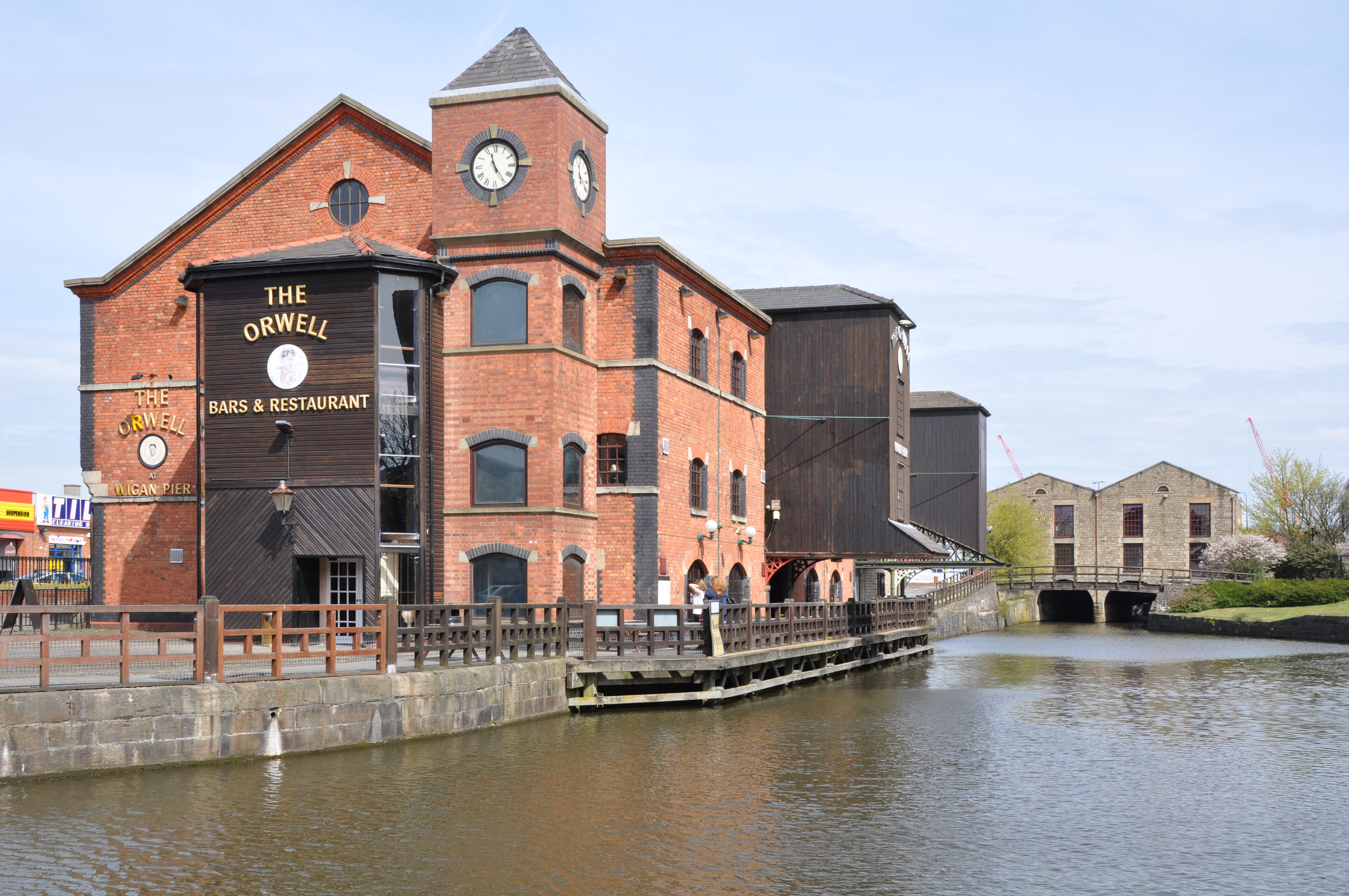 The Orwell pub seen from Wigan Pier to the south west.